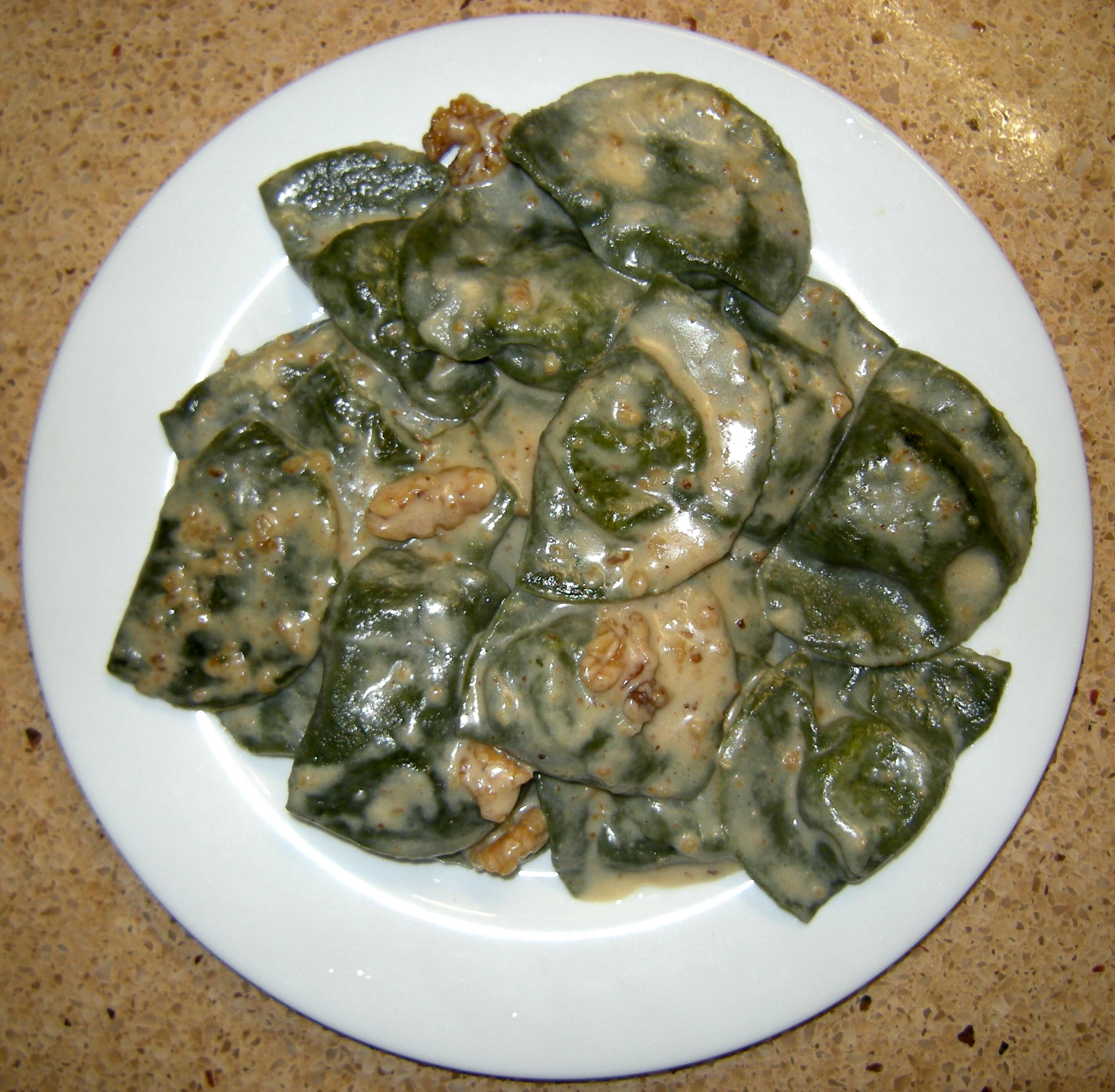 ravioli with nut-sauce, stuffed with beets and Ricotta cheese